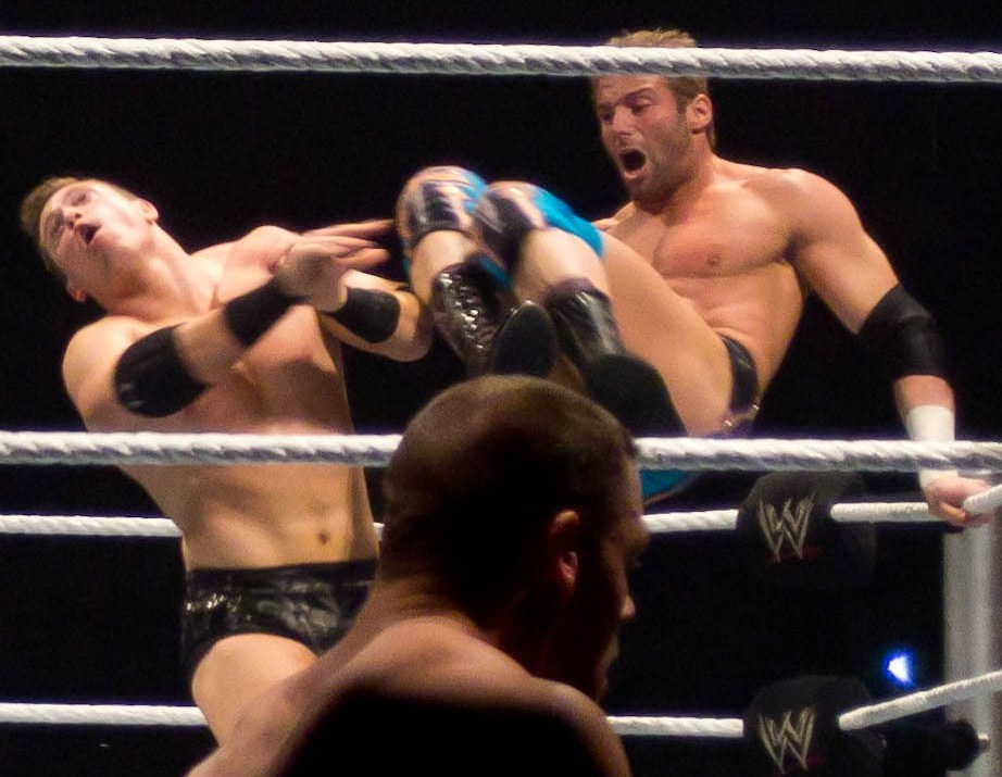 Zack Ryder counters a charging the Miz from in the corner with double high knees at a WWE Raw house show in London on November 11, 2011